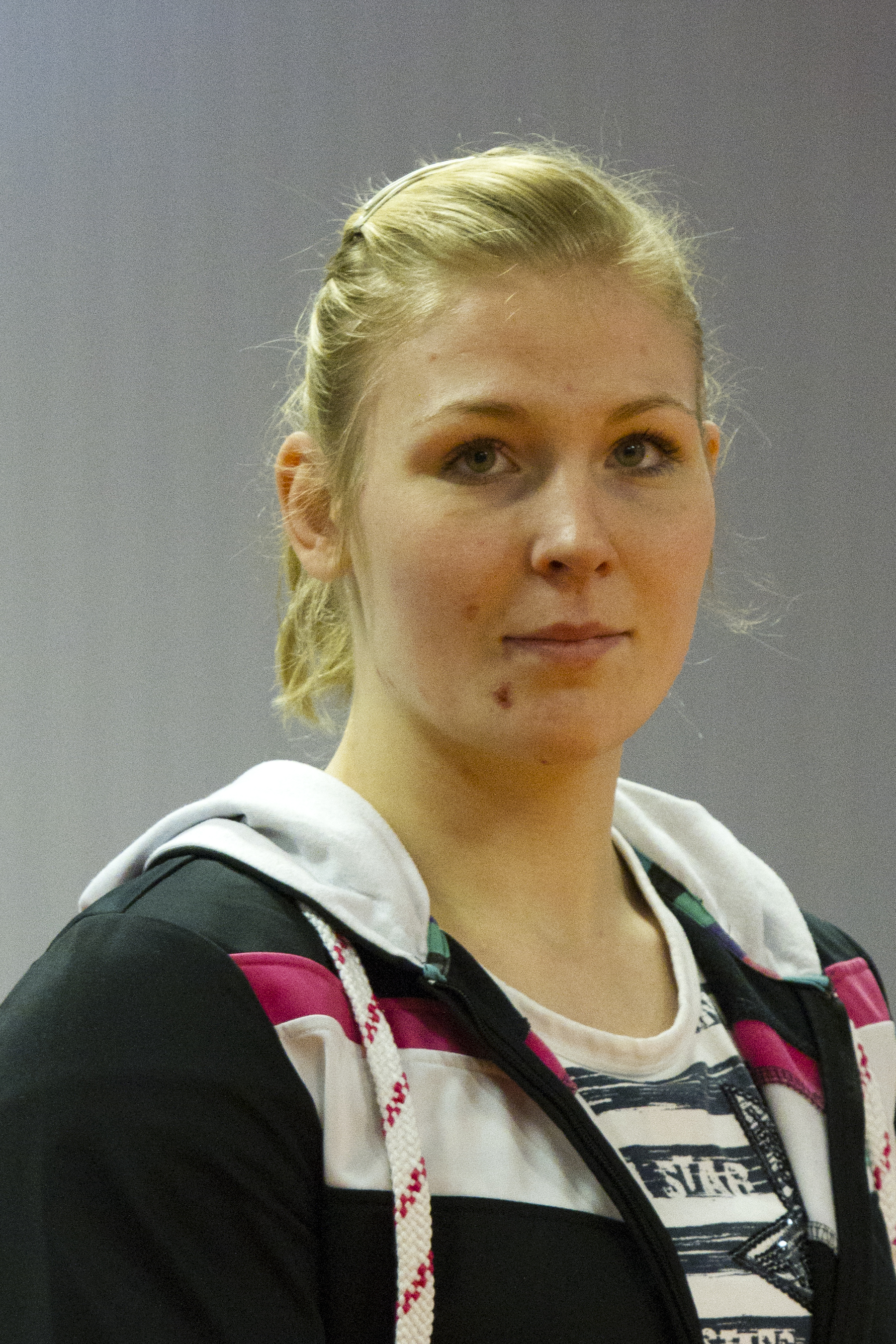 Kim Polling